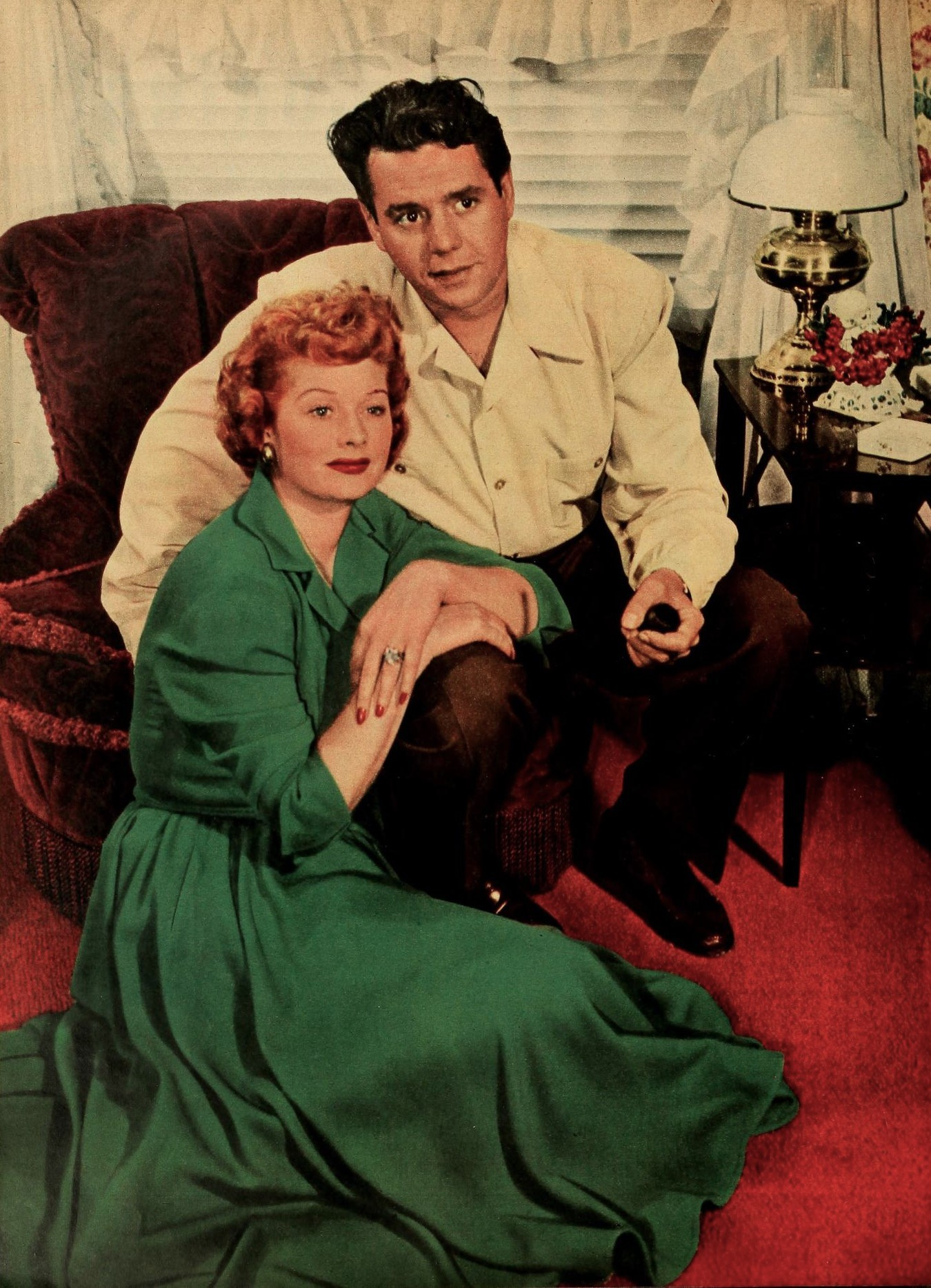 Lucille Ball and Desi Arnaz, 1952